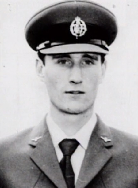 Photo of Frederick Valentich from the Australian Department of Transport report.